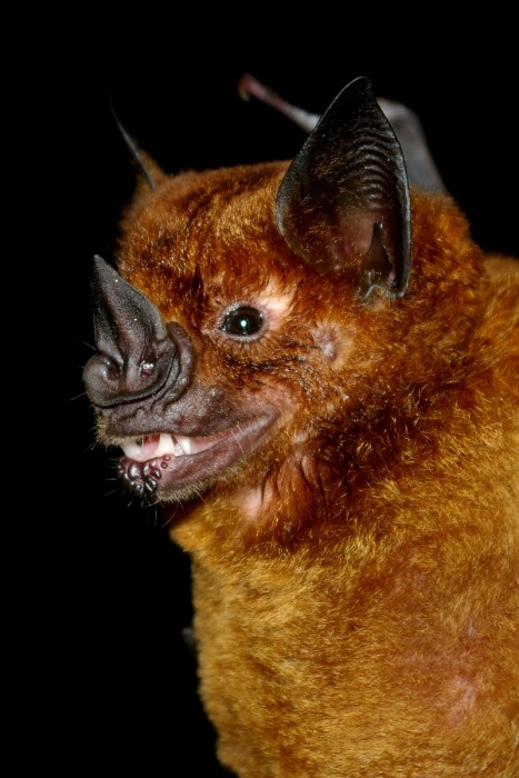 Greater Spear-nosed Bat, picture taken in La Selva, Costa Rica